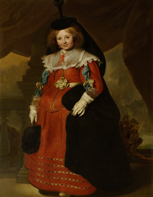 Portrait of Emerantia Beresteyn (c.1623–1674) in 1634